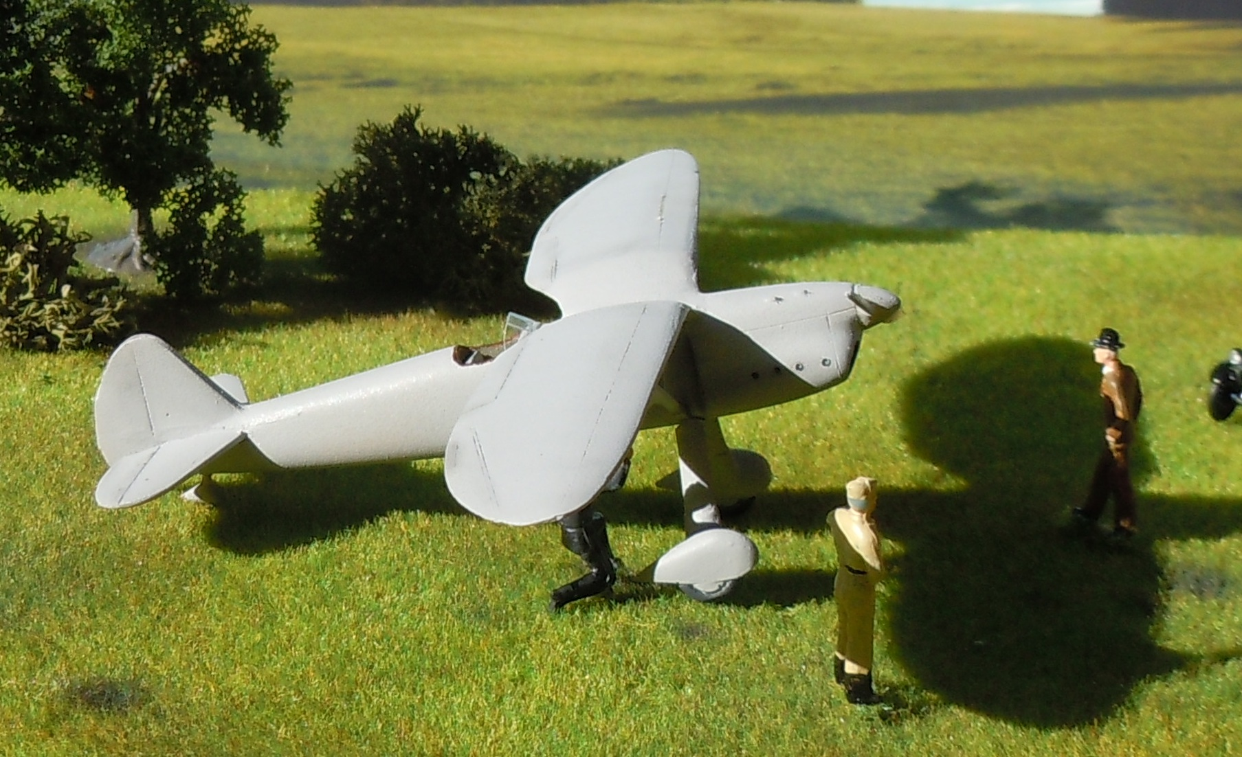 Resin model of a Henschel Hs 121 V1. This pic and more of the same model are on